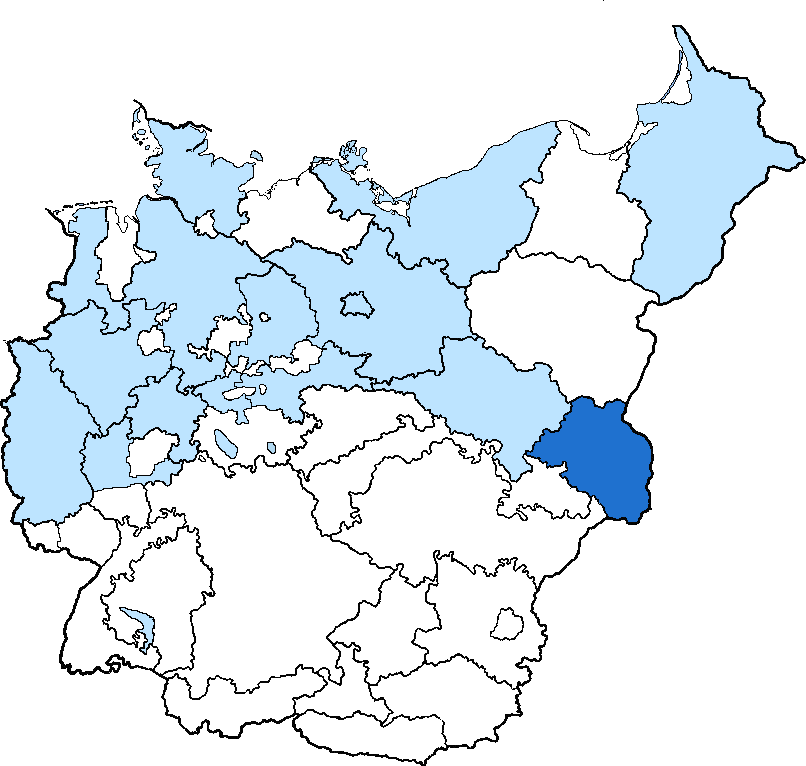 Location of the Province of Upper Silesia in the Free State of Prussia